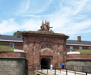 Entrance to Fort Jay on Governor's Island in New York City. Taken by user 'theinfo' in July, en:2005.